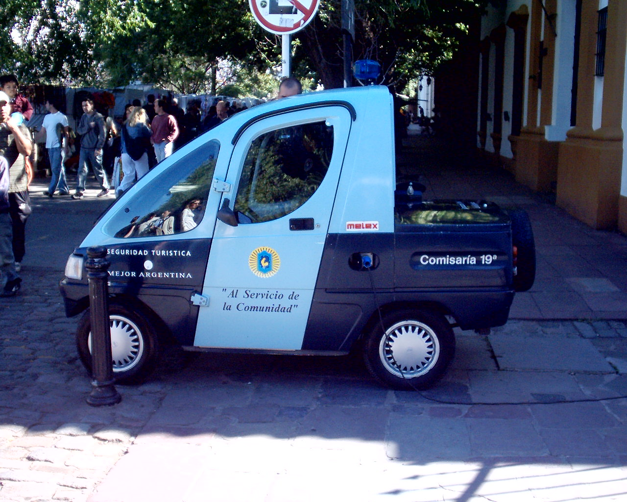 Miniature Police vehicles in use on the streets of Buenos Aires by the Policia Federal Argentina's Tourist Security branch. This is a Melex Lektro model. This side view shows the car is being charged from the electric mains. Photo taken using a Samsung Digimax 100.